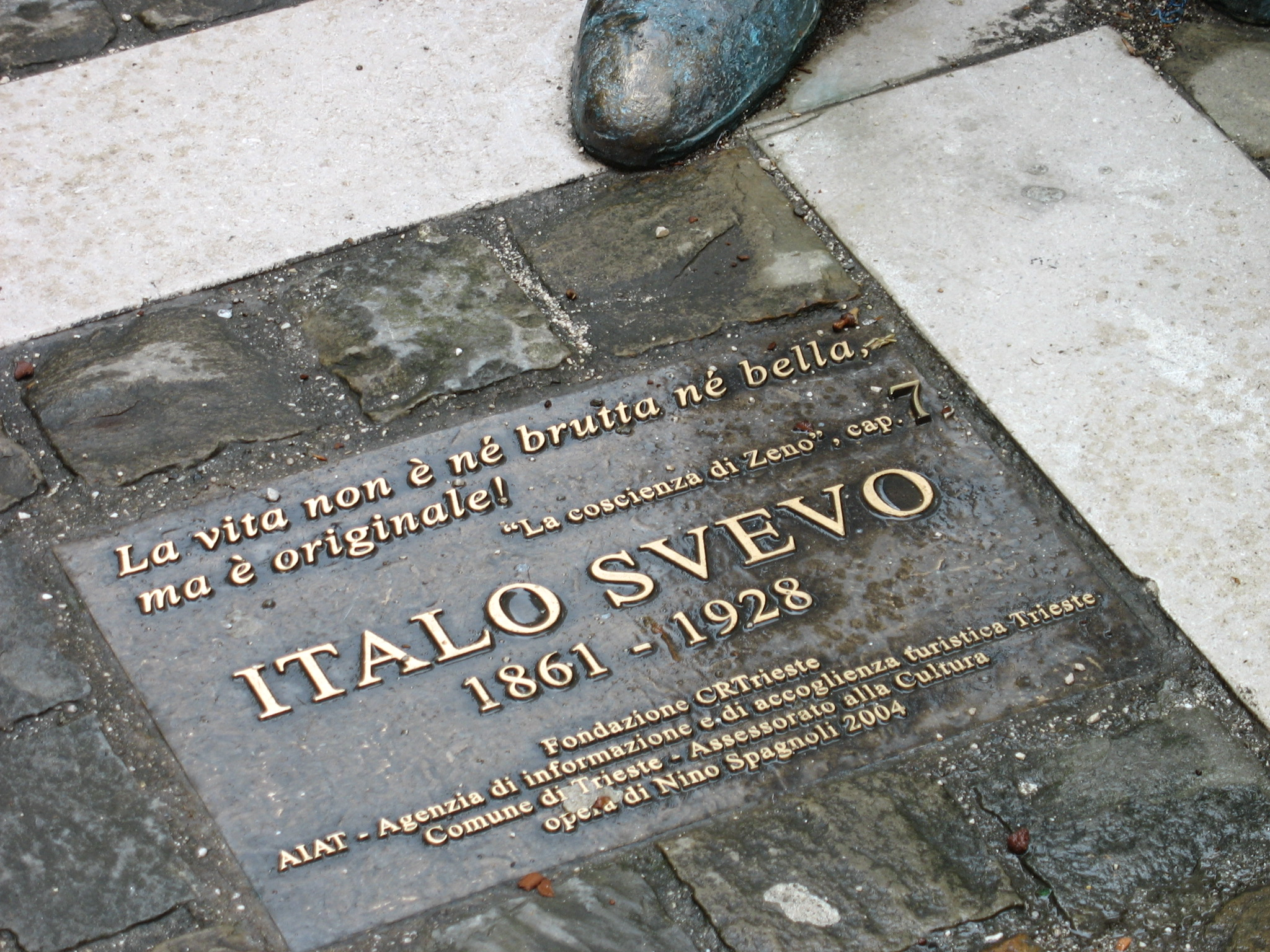 Italo Svevo in front of the Museum of Natural History in Trieste, detail.